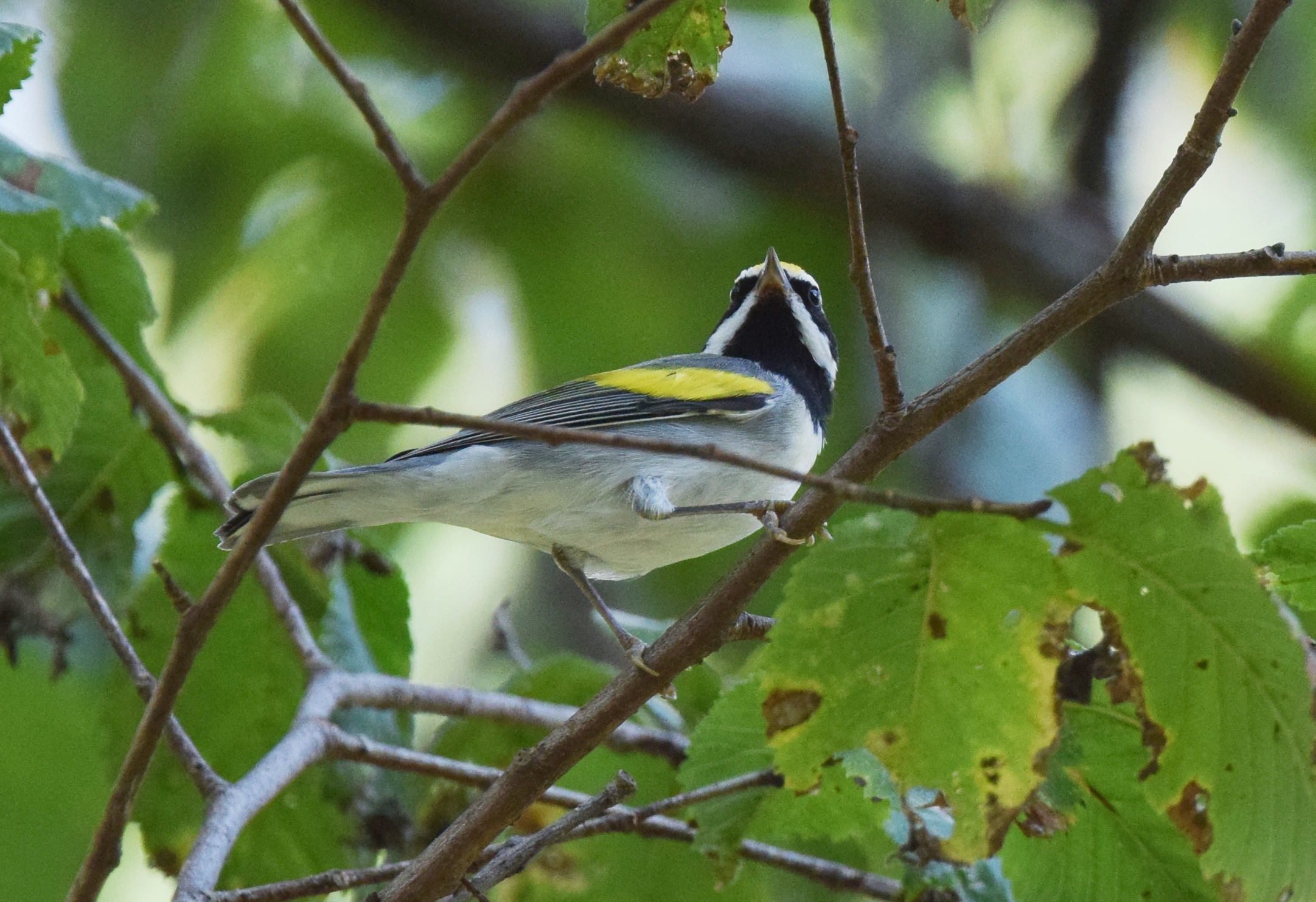 Tower Grove Park